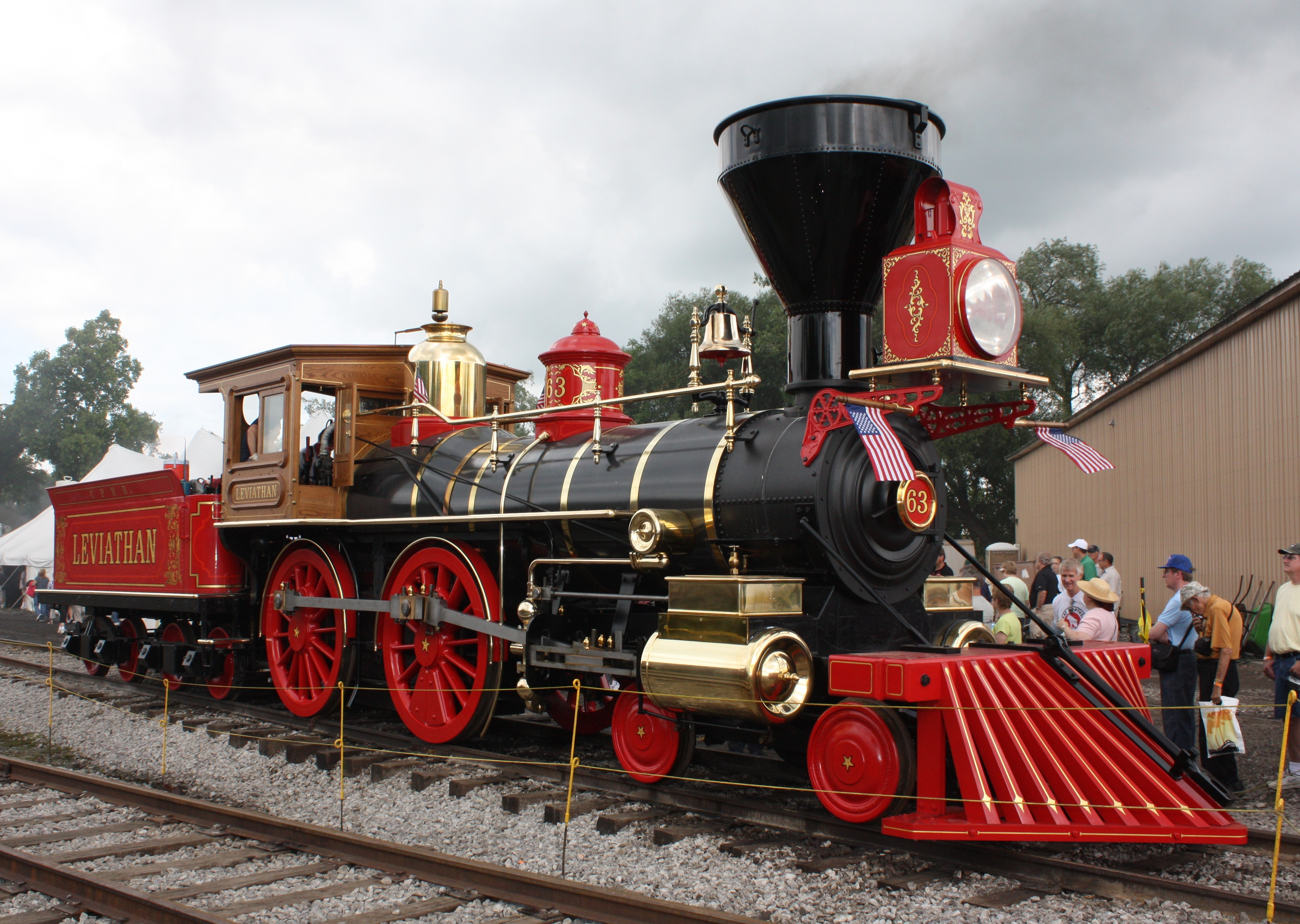 Leviathan 4-4-0 Steam Locomotive No.63 at its debut at Train Festival 2009 in Owosso, Michigan. This train is a replica of the original Leviathan that was built in 1868. The train was built from scratch by Mr. Dave Kloke, unlike the original, this replica burns oil instead of wood to generate steam.